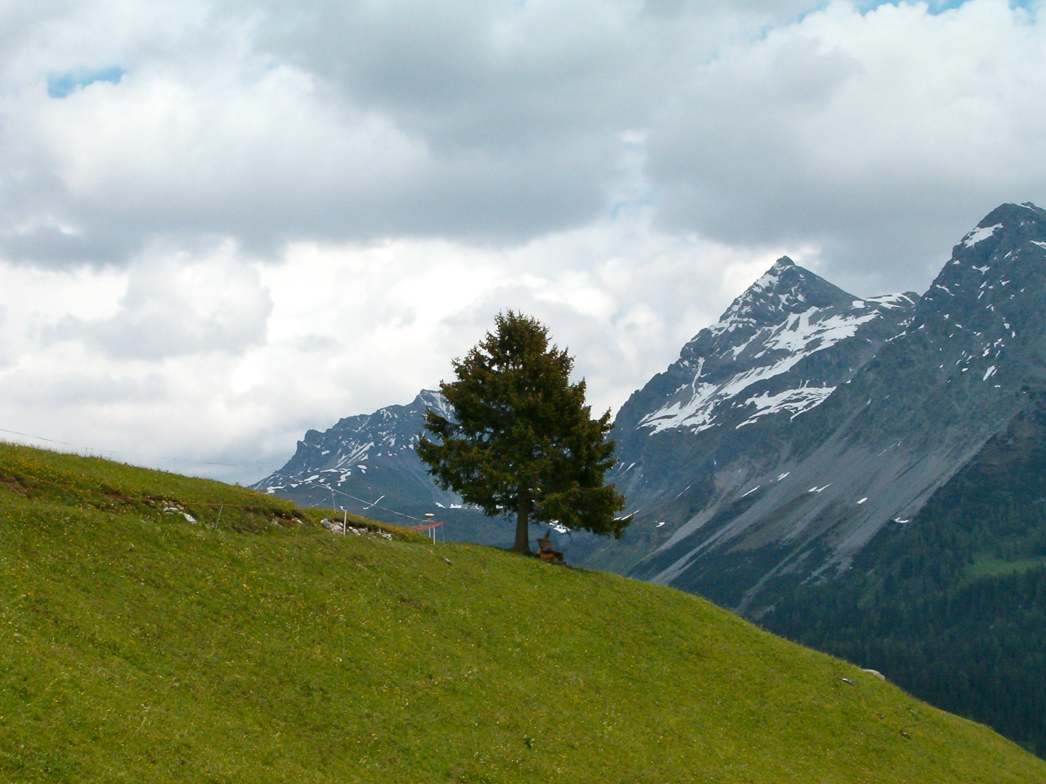 Strelakette, view from Arosa, Switzerland